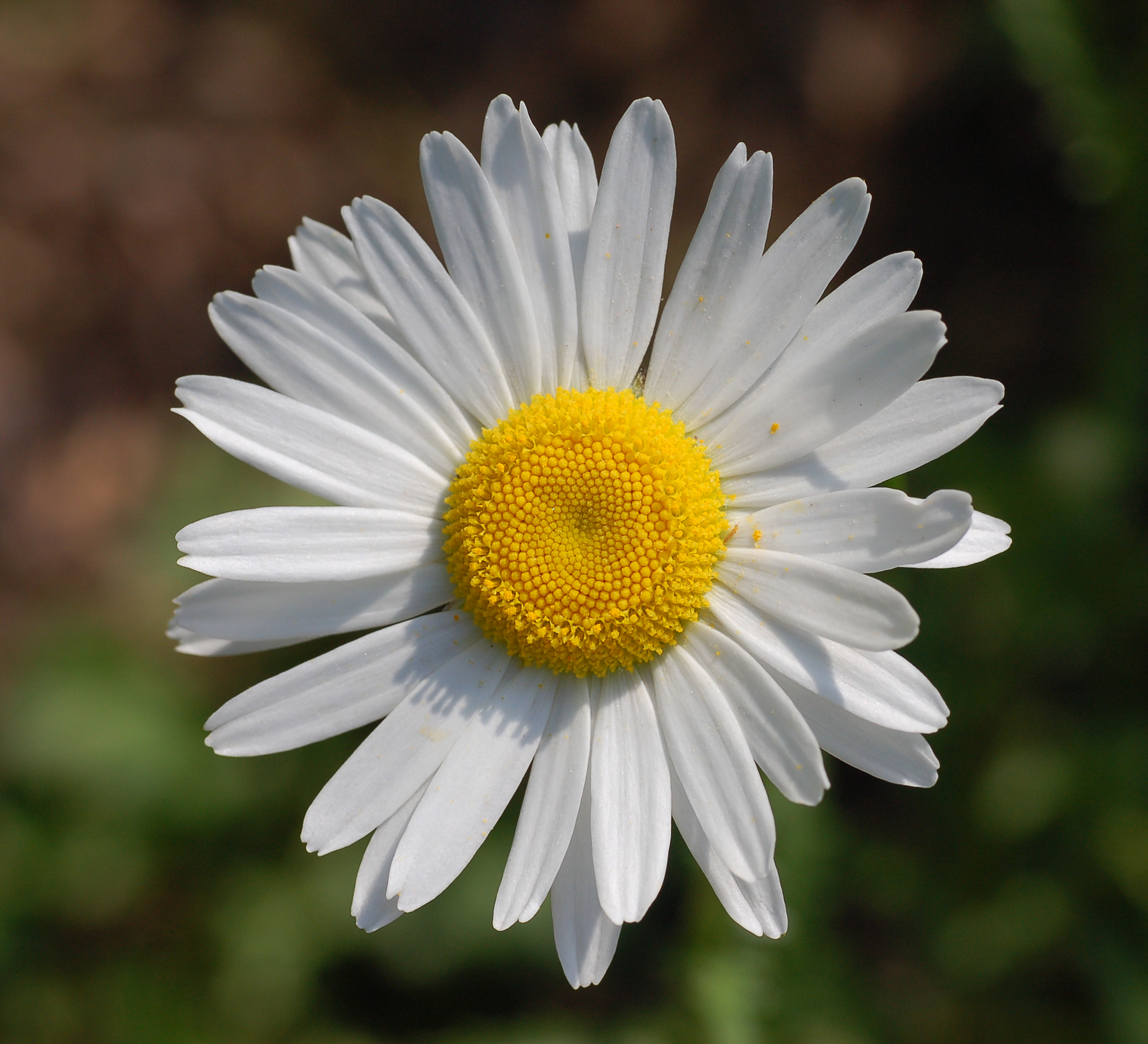 Picture of a flower of the Oxeye Daisyen (Leucanthemum vulgare en 'Filigran'). Photo taken in the Pond Garden Bed 2 at the Chanticleer Garden.